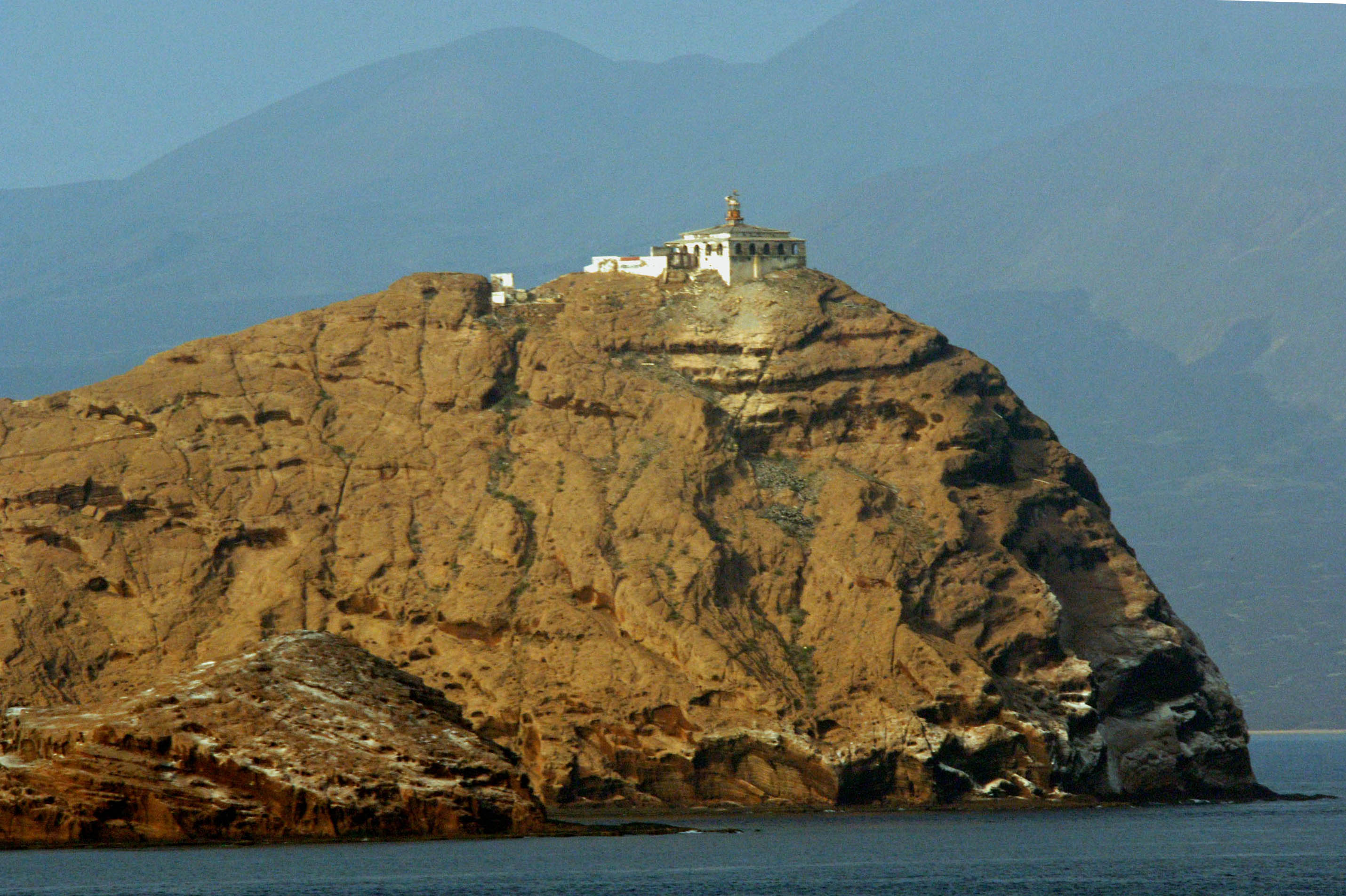 ALI LIGHT (1903) BUILT BY A PRIVATE FRENCH COMPANY, SEIZED BY THE BRITISH IN 1915, OPERATED UNDER CONTRACT BY THE FRENCH COMPANY AND THEN BY TWO BRITISH COMPANIES UNTIL, IN 1990, THE BRITISH CEDED CONTROL OF THE LIGHTHOUSES TO YEMEN. LOCATED ON A STEEP ISLAND AT THE SOUTHERN END OF THE HANISH ISLANDS.